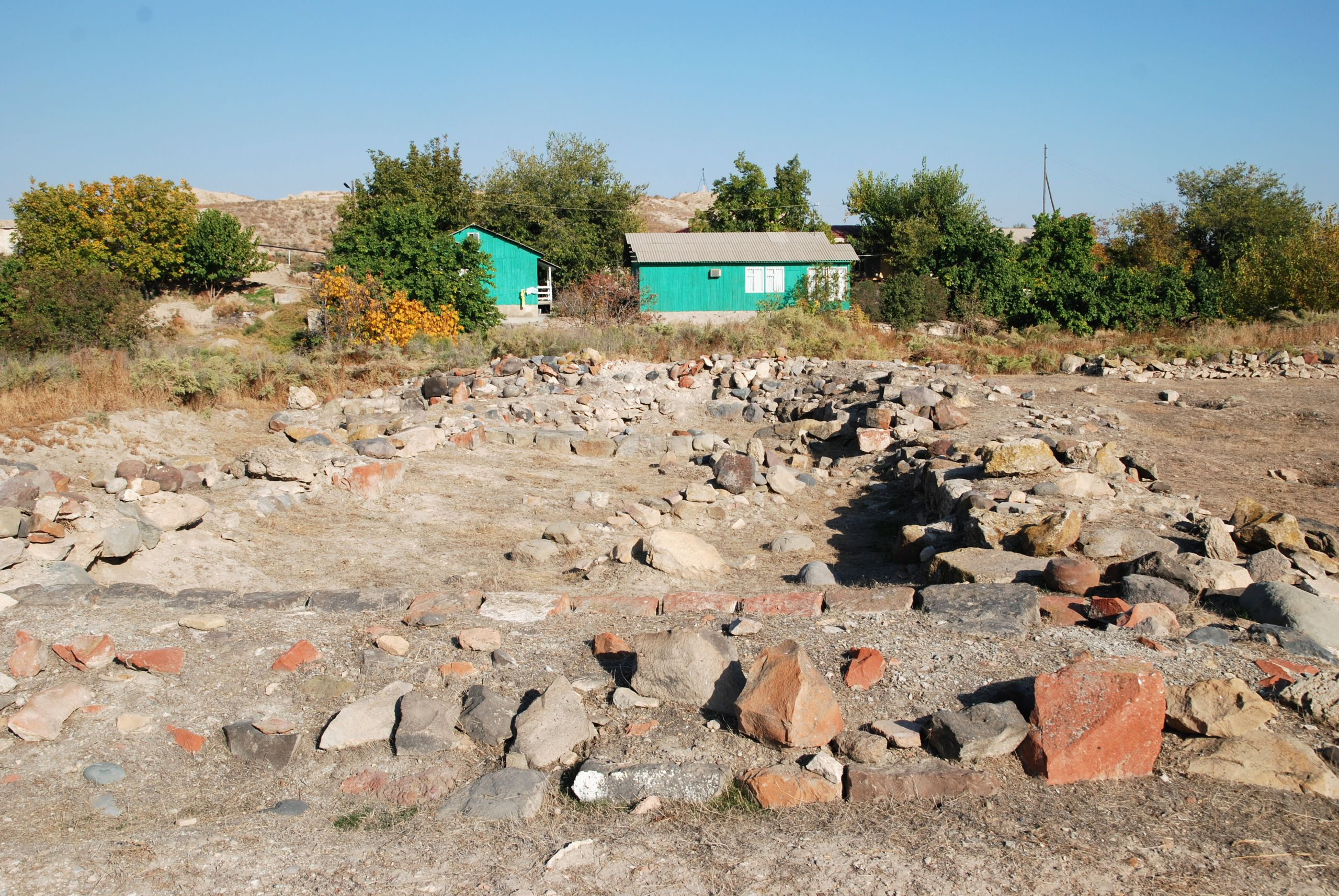 Dvin, Yiztbuzit church